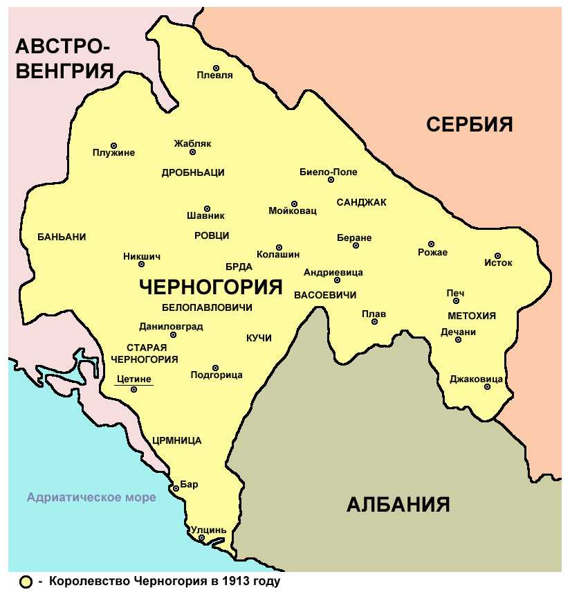 Russified map of Kingdom of Montenegro in 1913.